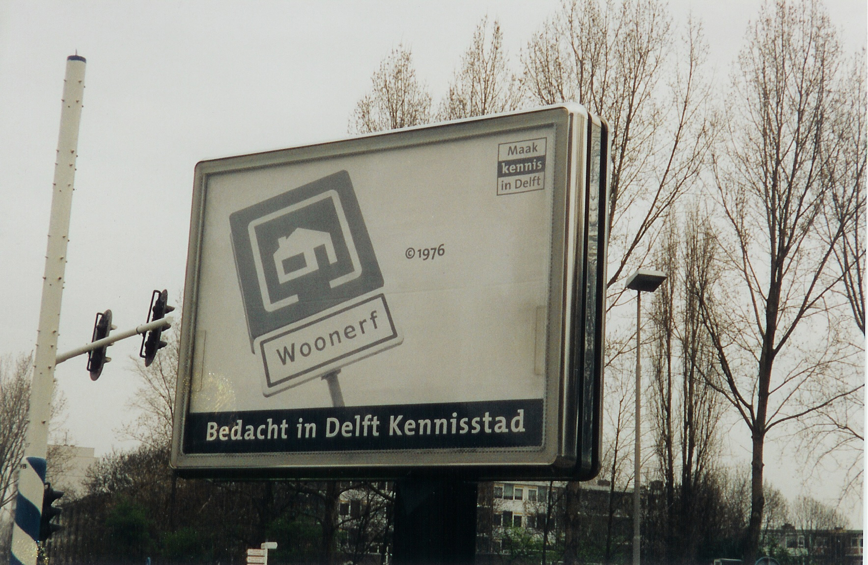 woonerf invented in Delft knowledge city in 1976